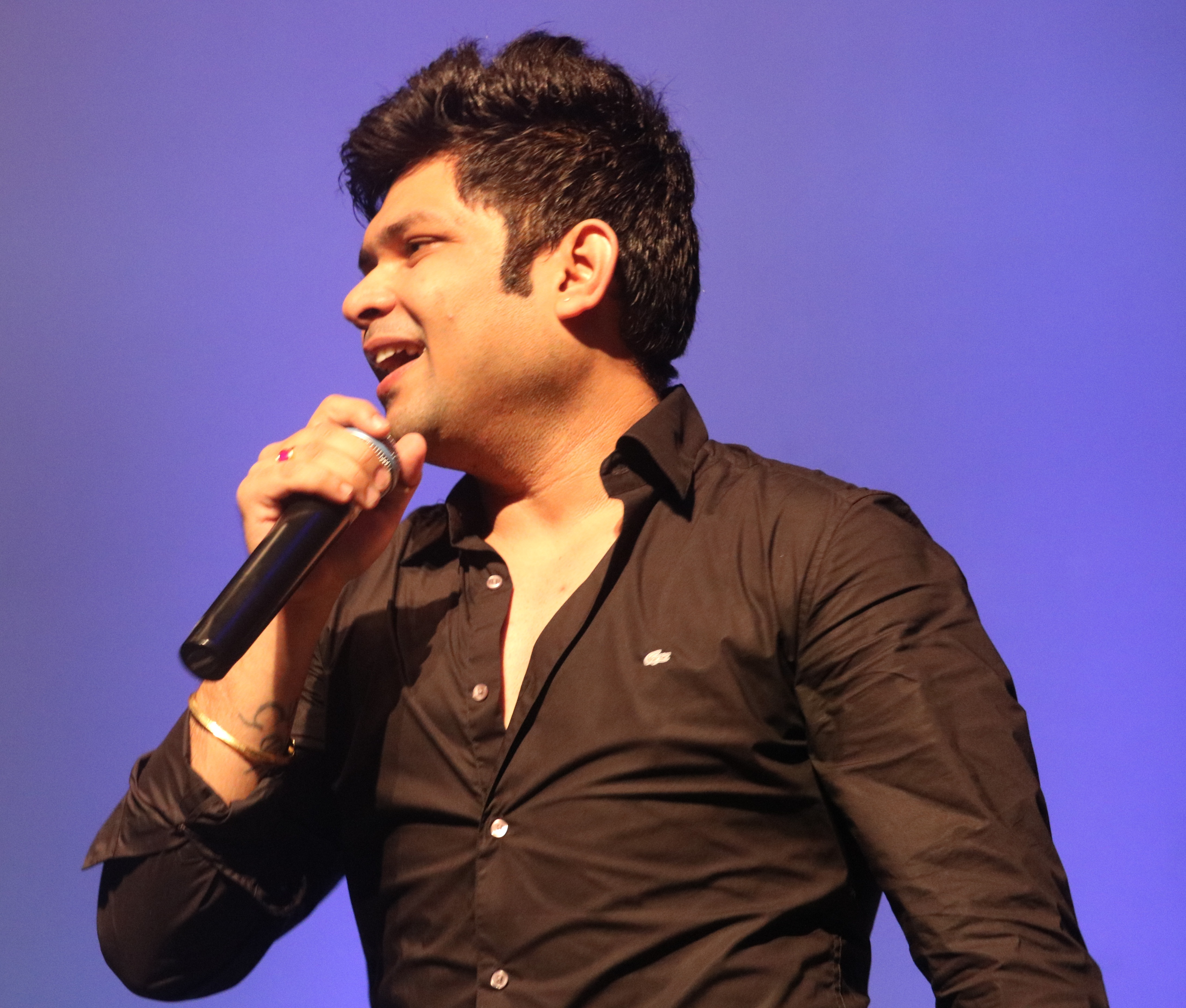 Aneek Dhar performing in his live show in Toronto,Canada in May 2018